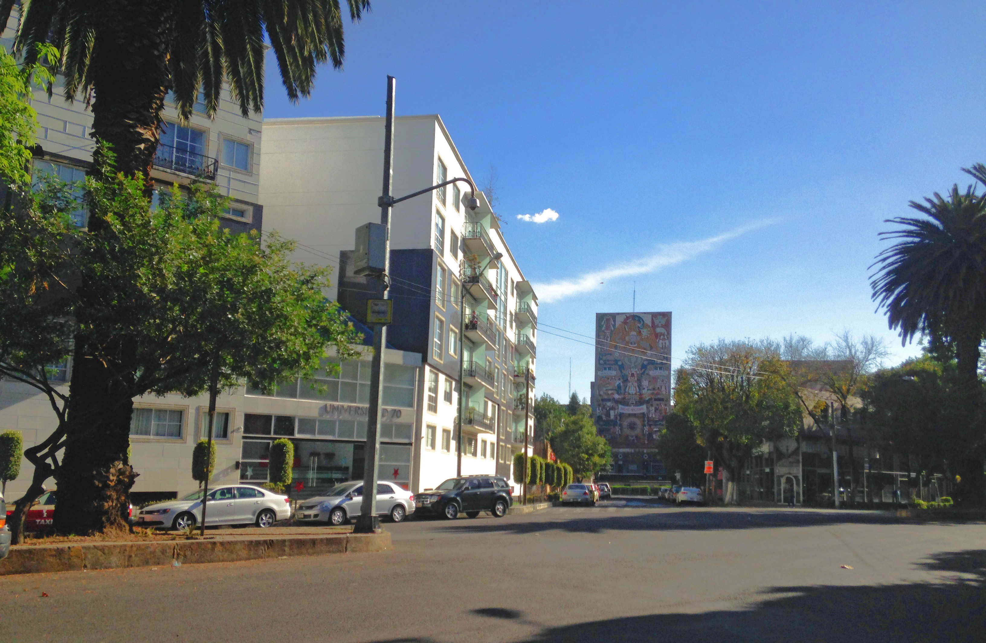 SCOP Center Building, a governmental building with Juan O'Gorman, José Chávez Morado, Francisco Zúñiga and Rodrigo Arenas Betancourt mural paintings, in Narvarte's neighbourhood, Mexico City, 2016.